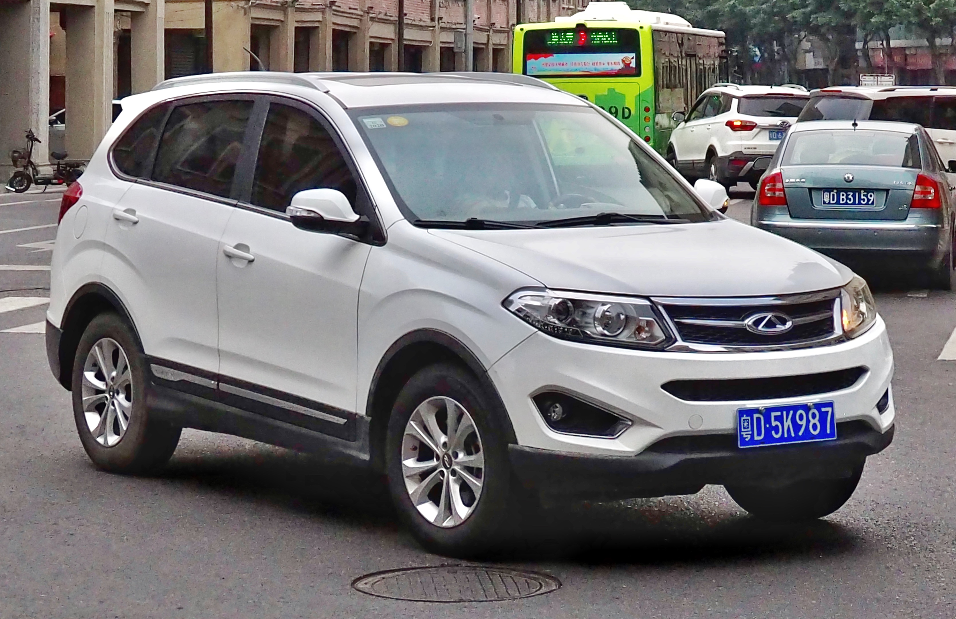 A 2013 Chery Tiggo 5 photographed in Shantou, Guangdong Province, China. 中文（中国大陆）: 一辆2013年的奇瑞瑞虎5，拍摄于中国广东省汕头市。